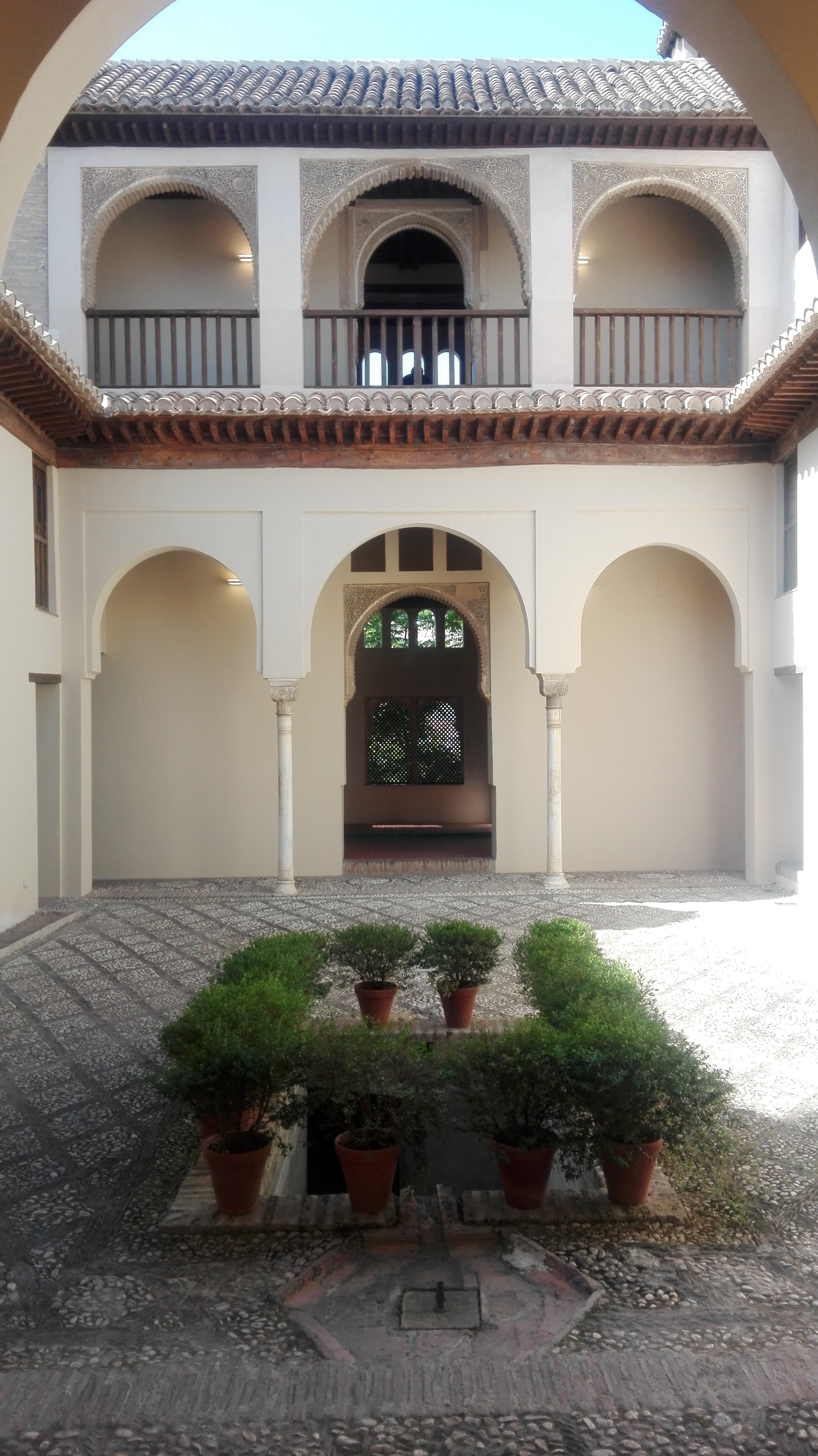 Dar al-Horra Palace (inside)